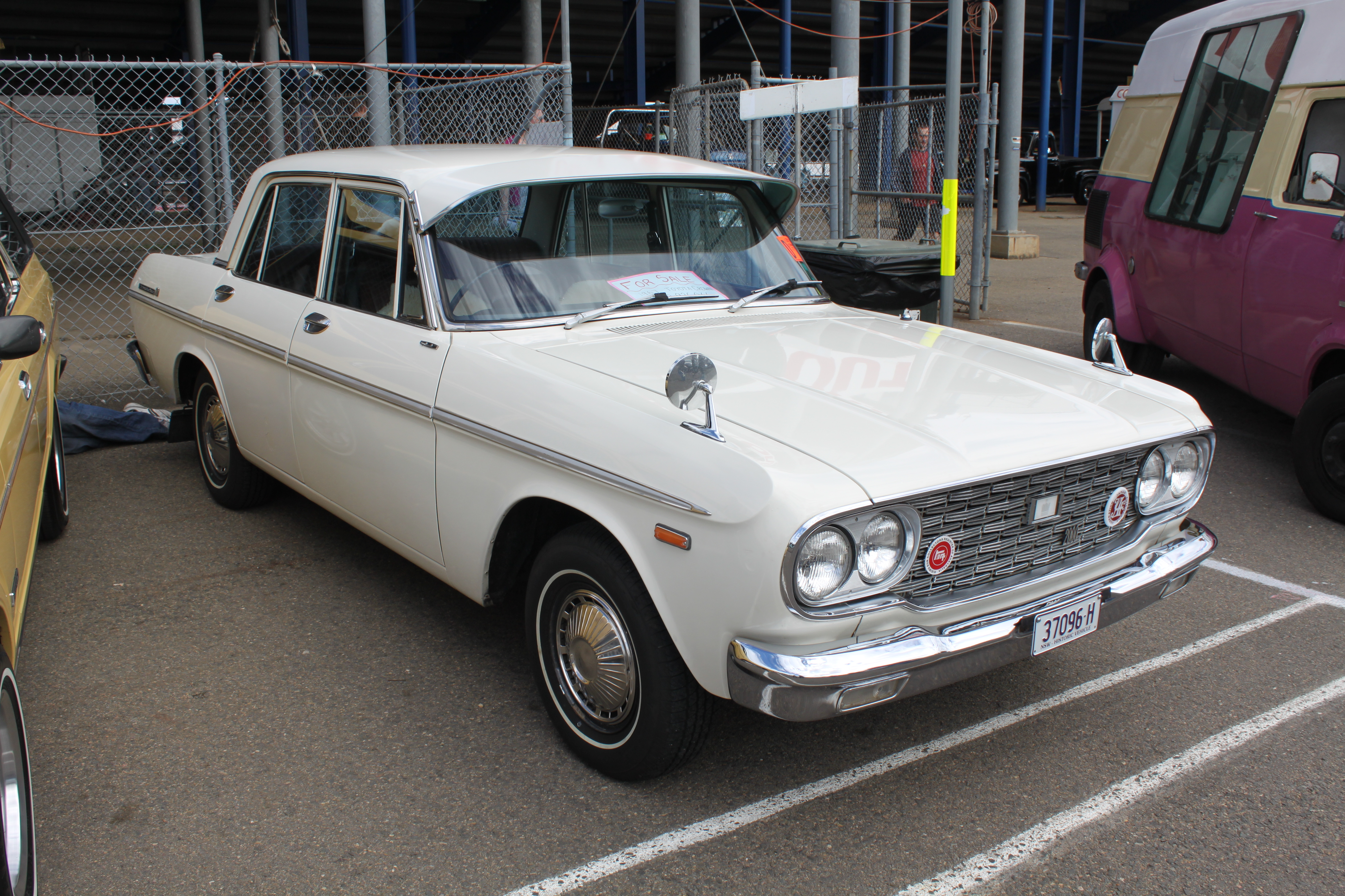 Toyota Crown MS40